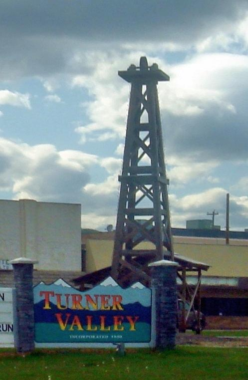 Welsome sign in Turner Valley, Alberta, Canada.